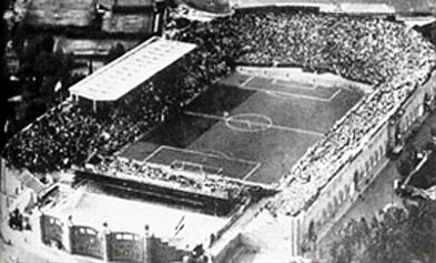 The Stadio del Partito Nazionale Fascista